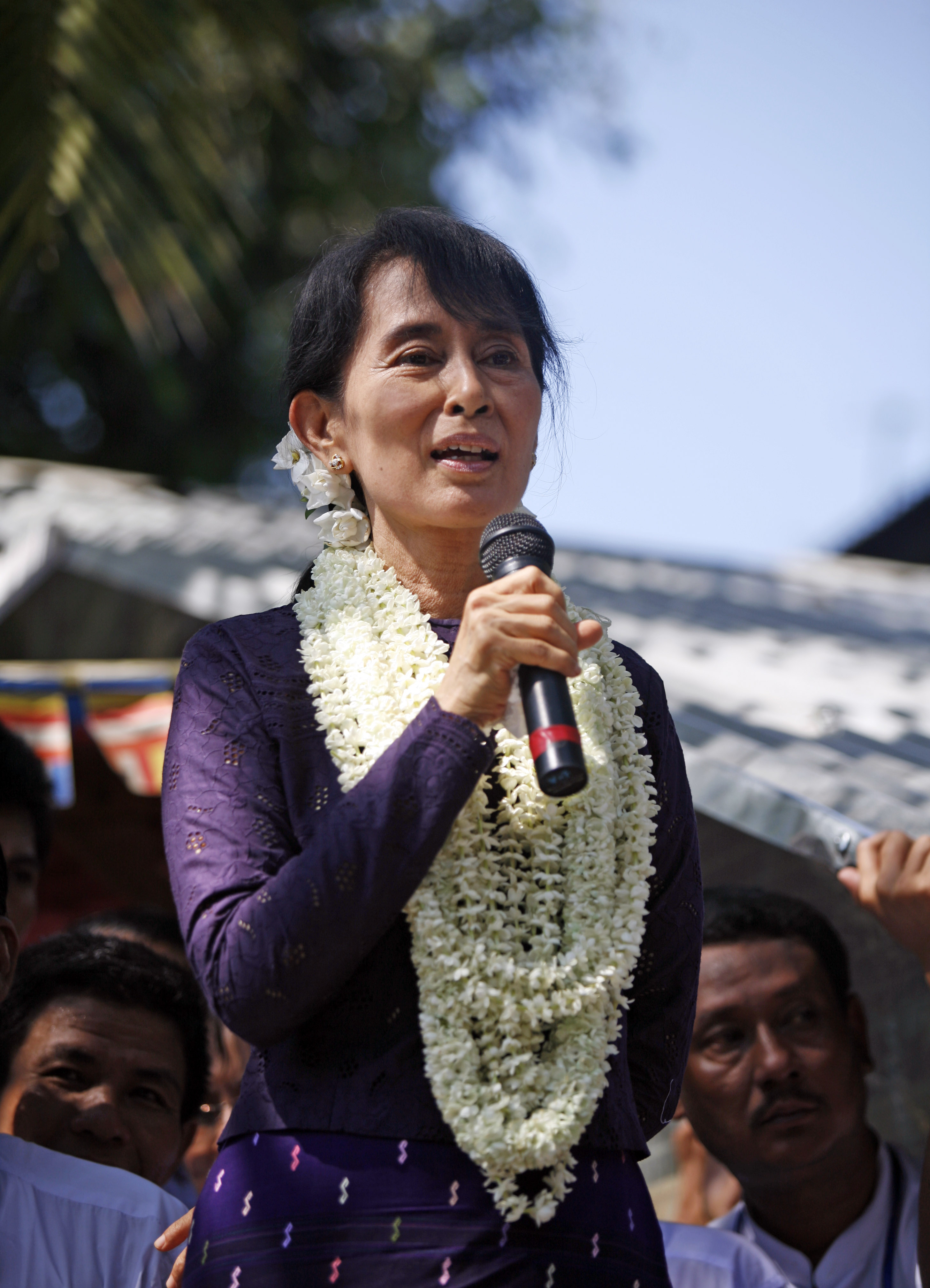 Aung San Suu Kyi gives speech to supporters at Hlaing Thar Yar Township in Yangon, Myanmar on 17 November 2011.မြန်မာဘာသာ: ဒေါ်အောင်ဆန်းစုကြည်